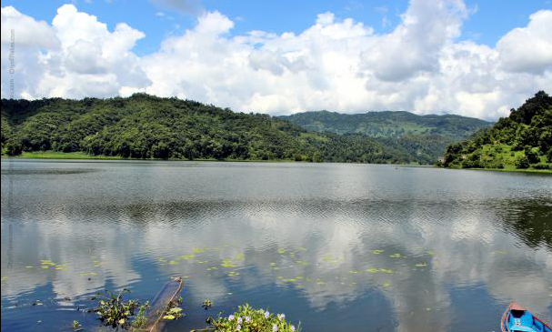 This is the photo of Rupa Lake ...